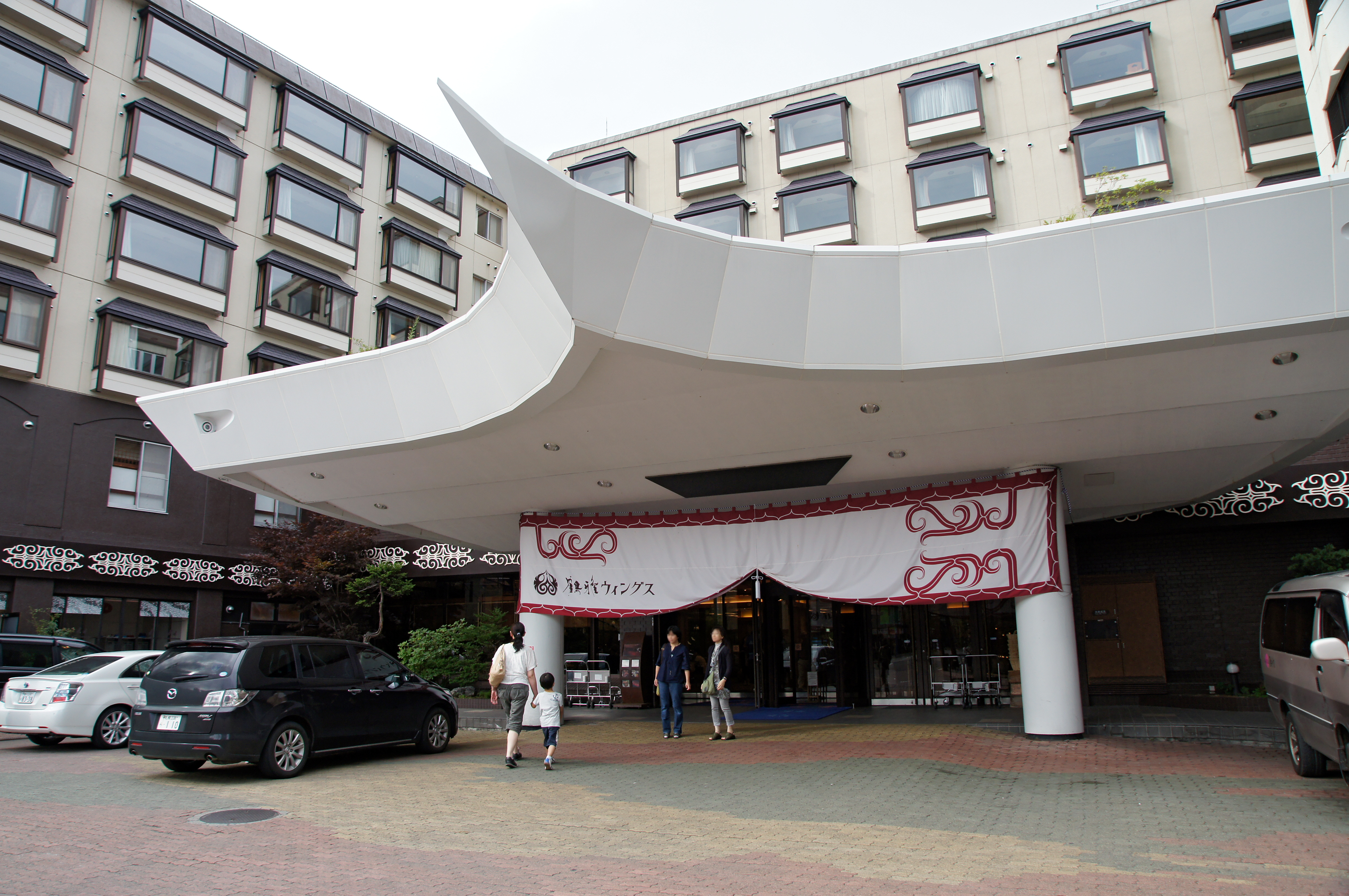 Lake_Akan_Tsuruga_Resort_Spa_Tsuruga_Wings in Kushiro City, Hokkaido prefecture, Japan